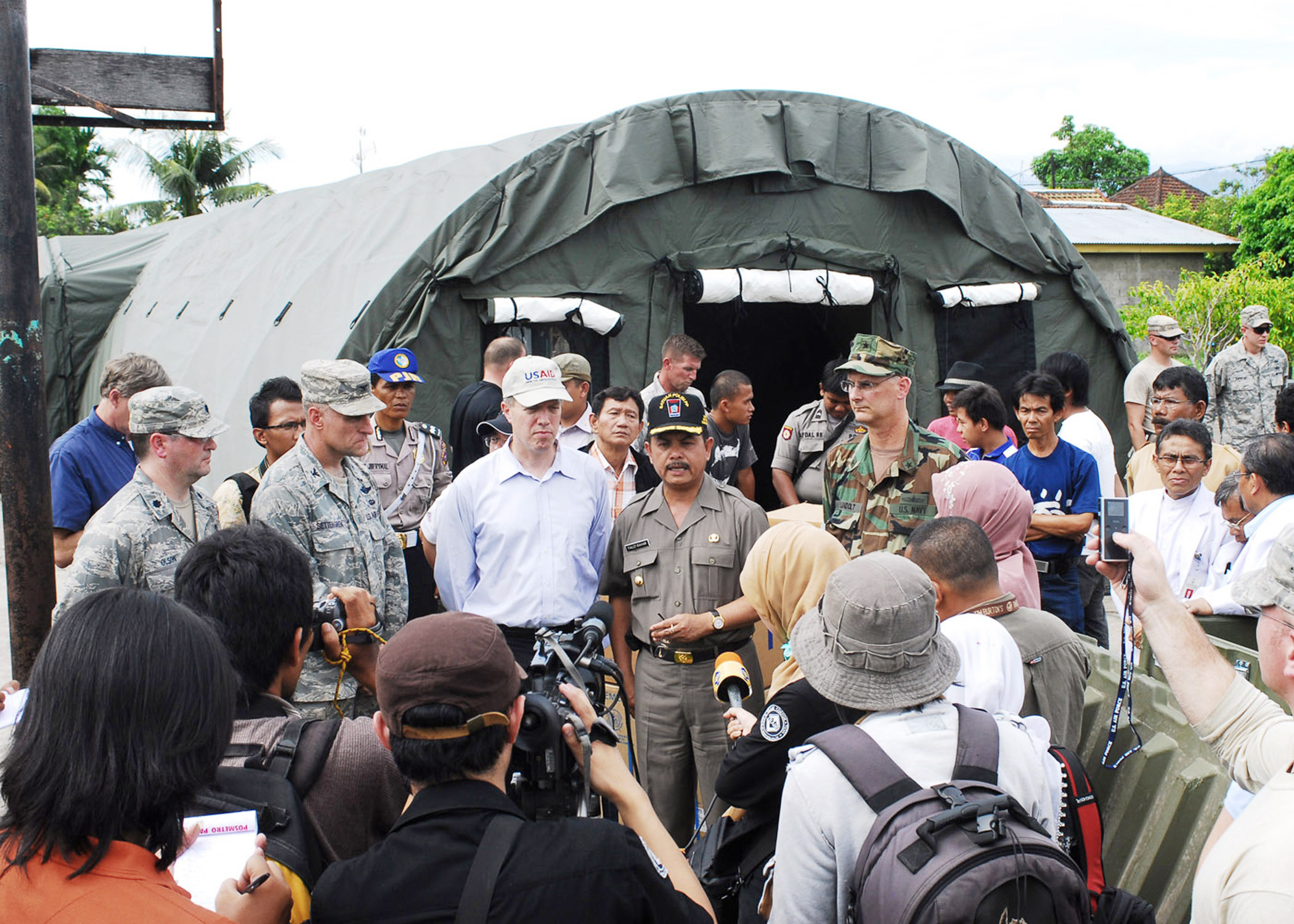 Mayor of Padang, Fauzi Bahar, speaks with local media in Padang, Indonesia, Oct. 6, 2009, to welcome and thank the Air Force humanitarian assistance rapid response team for bringing much needed medical assistance to the earthquake ravaged region. (U.S. Air Force photo/Staff Sgt. Veronica Pierce)